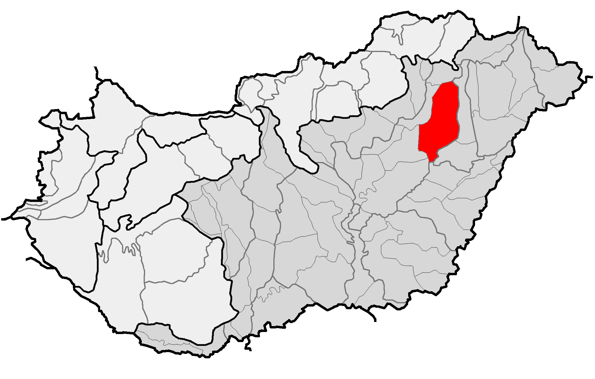 Location of geographical microregion of Hortobágy (red) and macroregion of Alföld (gray) within subdivisions of Hungary.